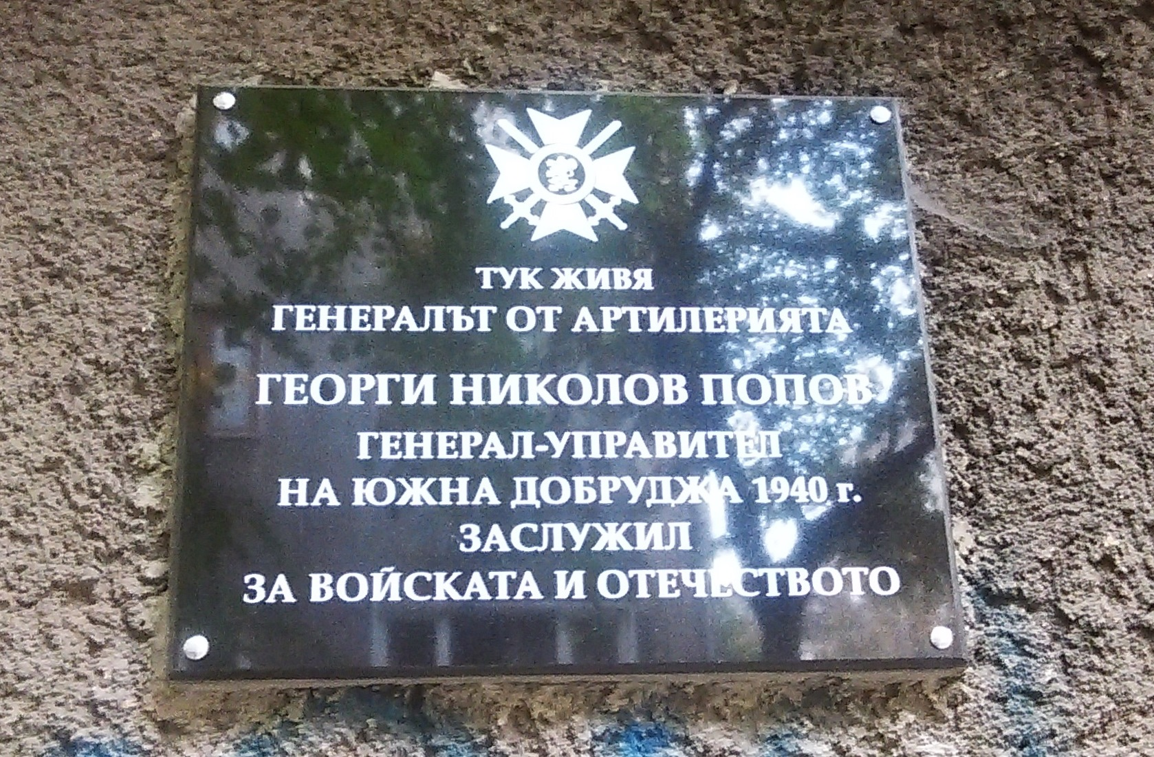 A memorial plaque before the house of bulgarian general Georgi Popov